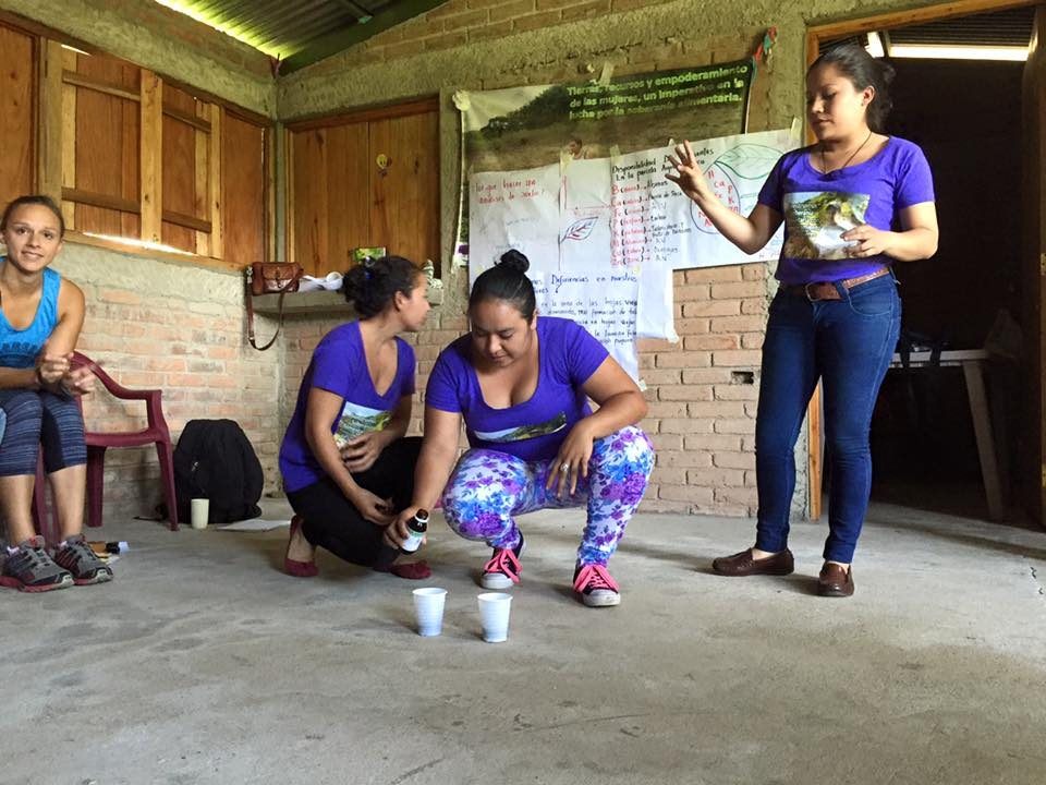 These three young Nicaraguan women are trained in organic soil testing and are showing some American buyers and consumers how they test the soil for minerals.